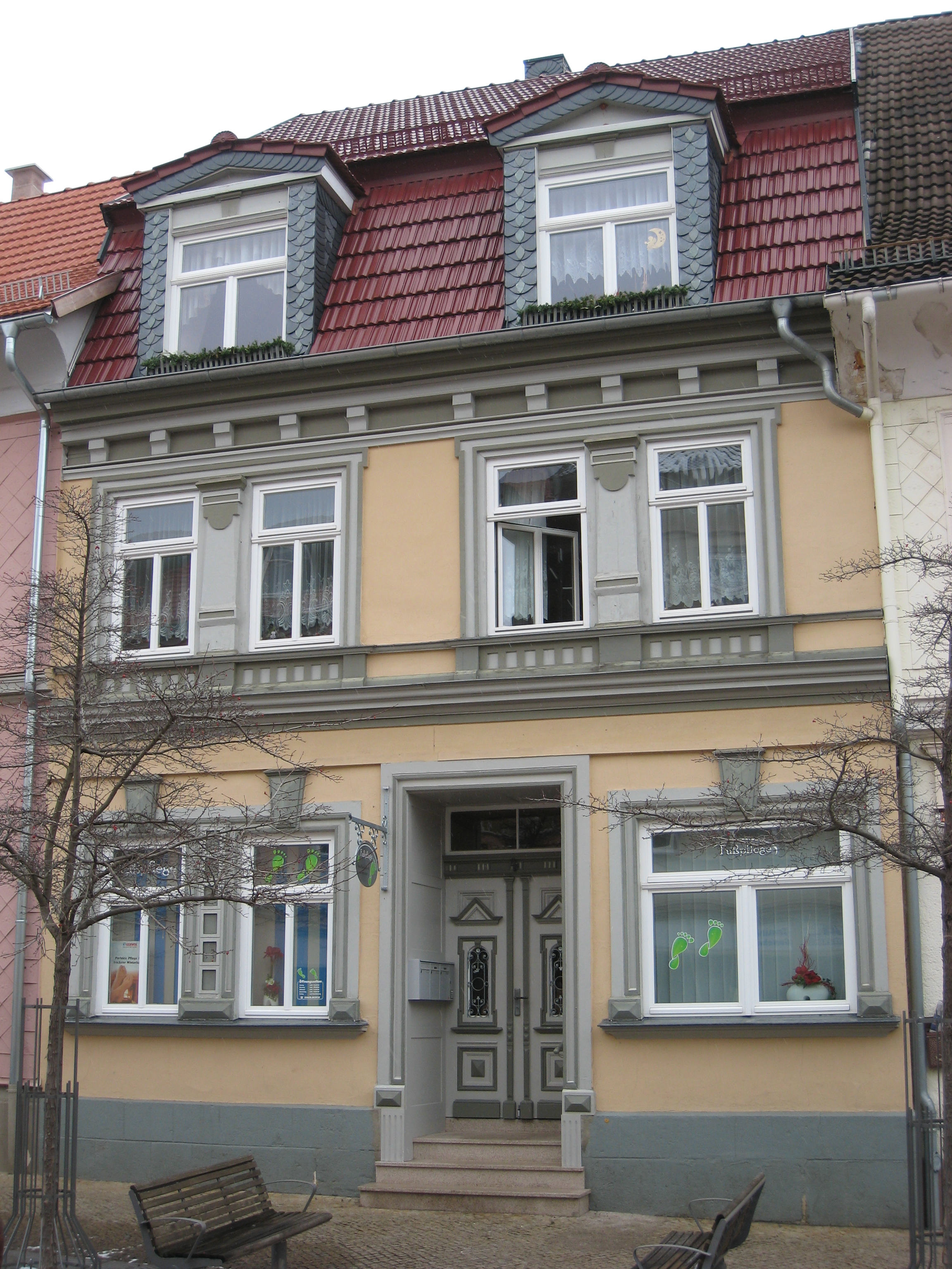 Former pharmacy Engel-Apotheke on Holzmarkt 4, Arnstadt, house Zum Drachen